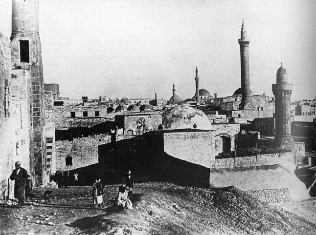 Citadel and mosque in Aleppo, circa 1900.